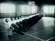 女子高等師範学校国語体育専修科学生による梁木体操:(Gymnastic Training of College Women in 1910)